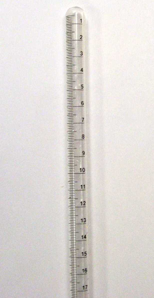 This is an image of the top of an Eudiometer 그림:Eudiometer.jpg